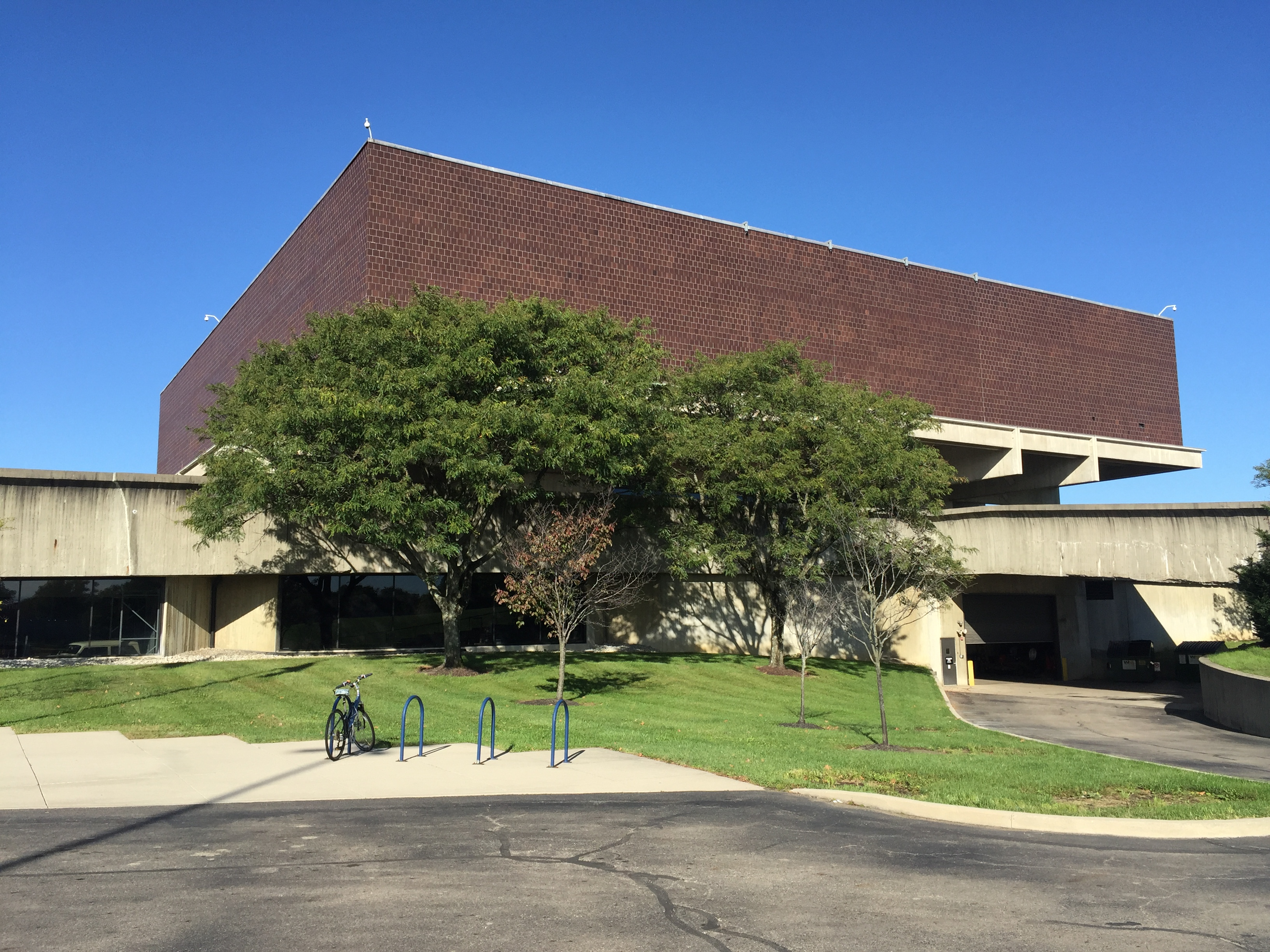 Ohio History Center in Columbus, Ohio